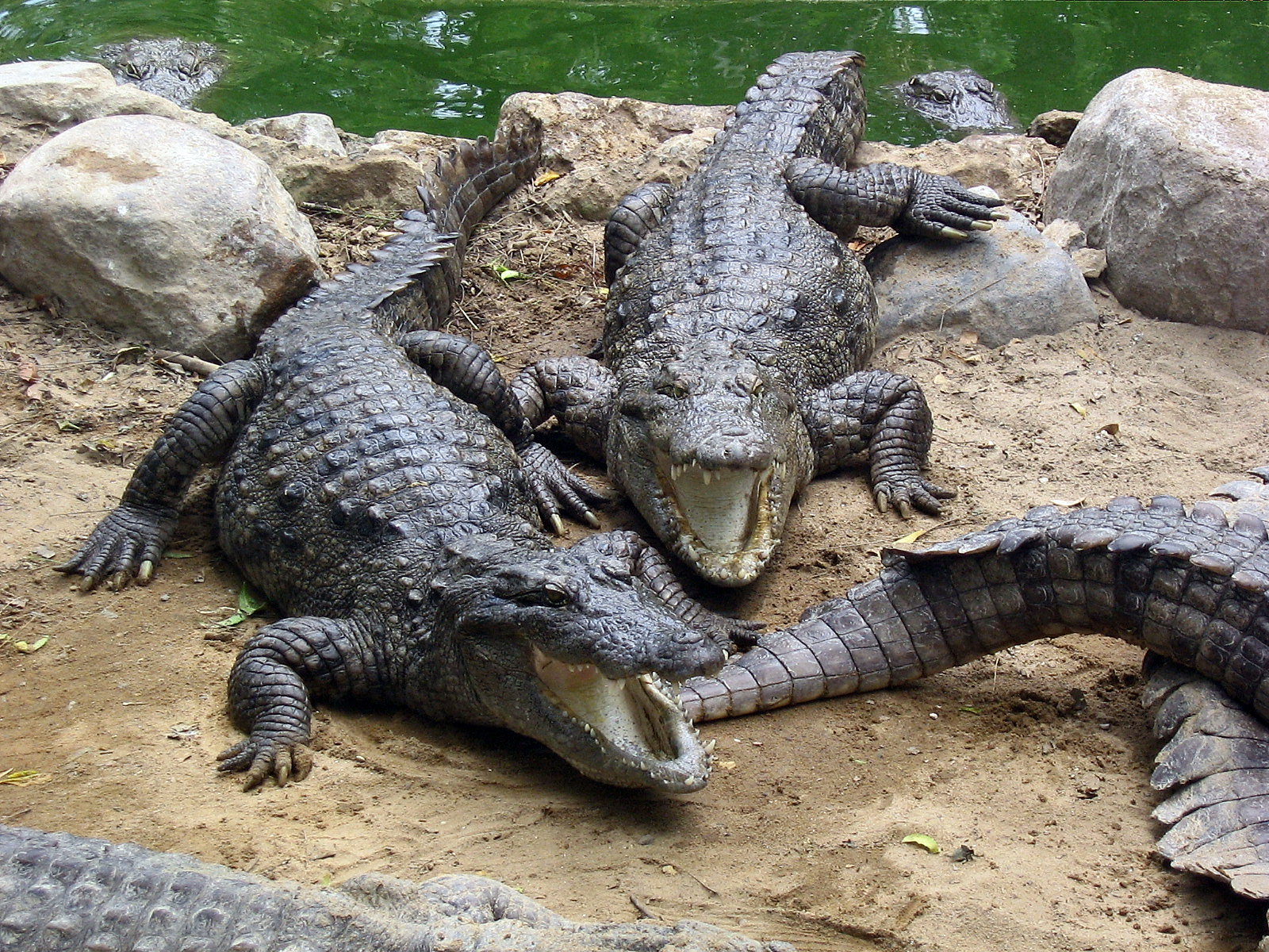 Marsh Crocodiles basking in the sun